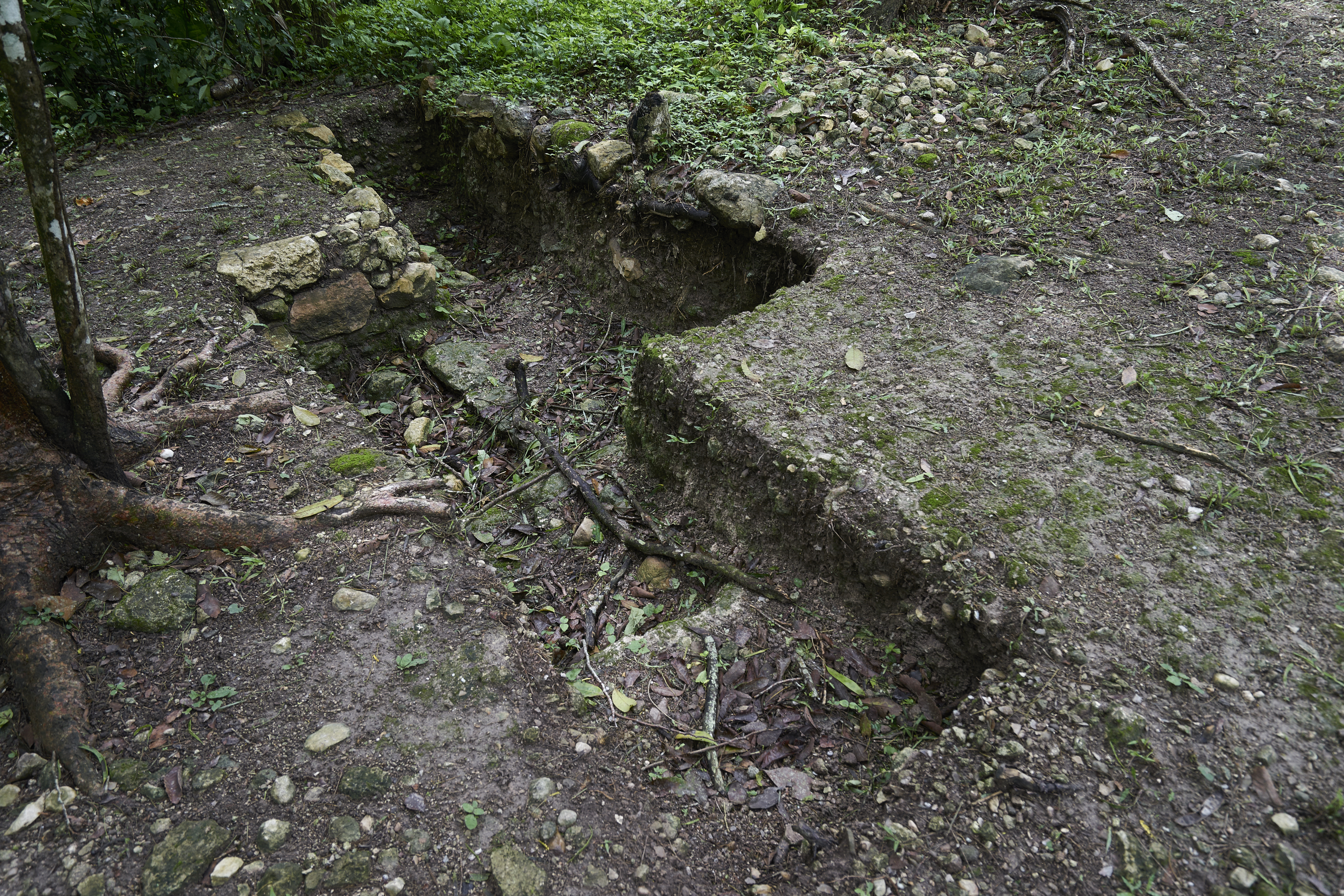 Cahal Pech - Archaeological site, San Ignacio, Belize The making of this document was supported by the Community-Budget of Wikimedia Germany. Traces of excavations about a 100 metres northern of Plaza C at